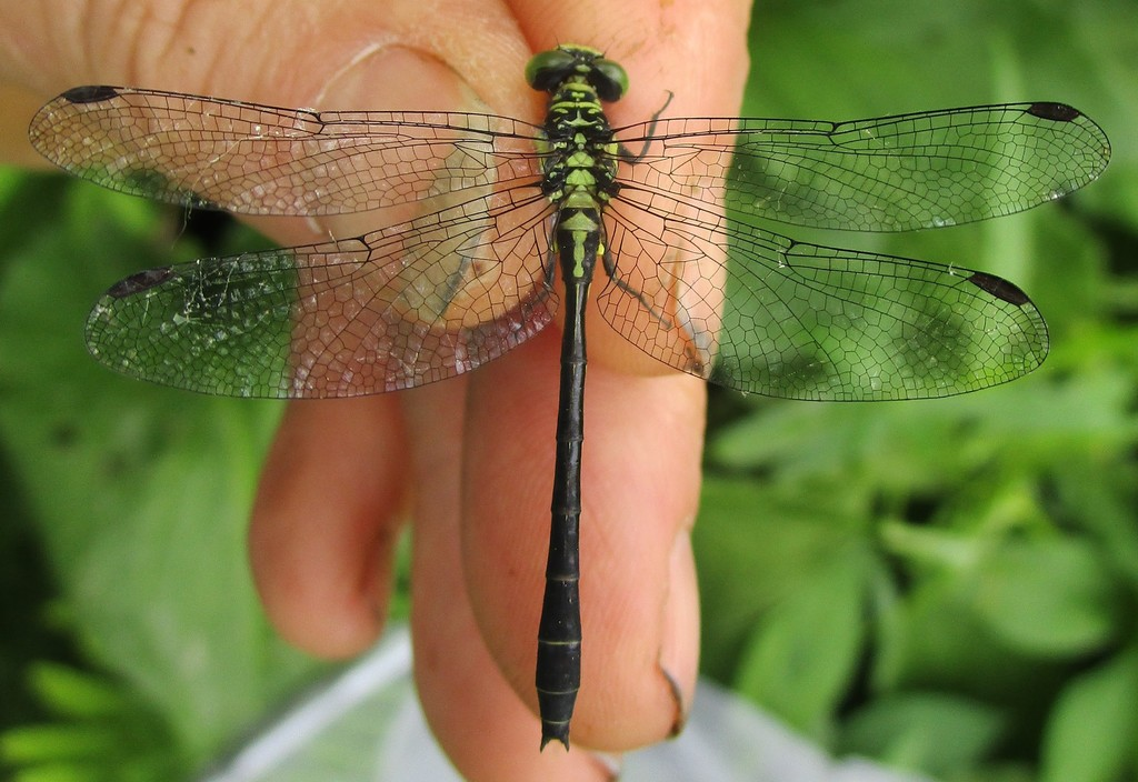 Southern Pygmy Clubtail (Lanthus vernalis), Valley-Hi, PA, USA